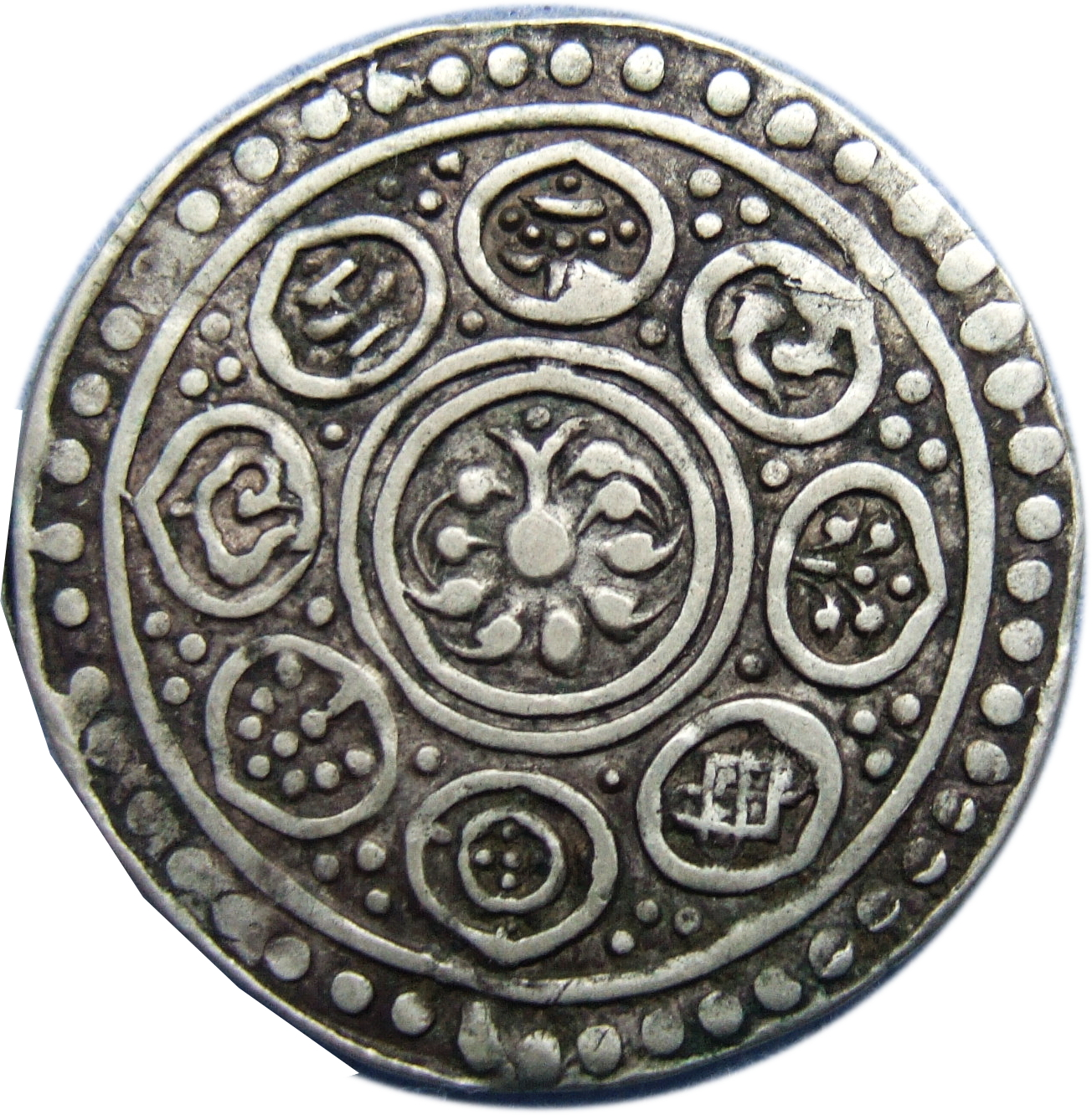 Tibetan silver coin. Type: Kong-par tangka (reverse)